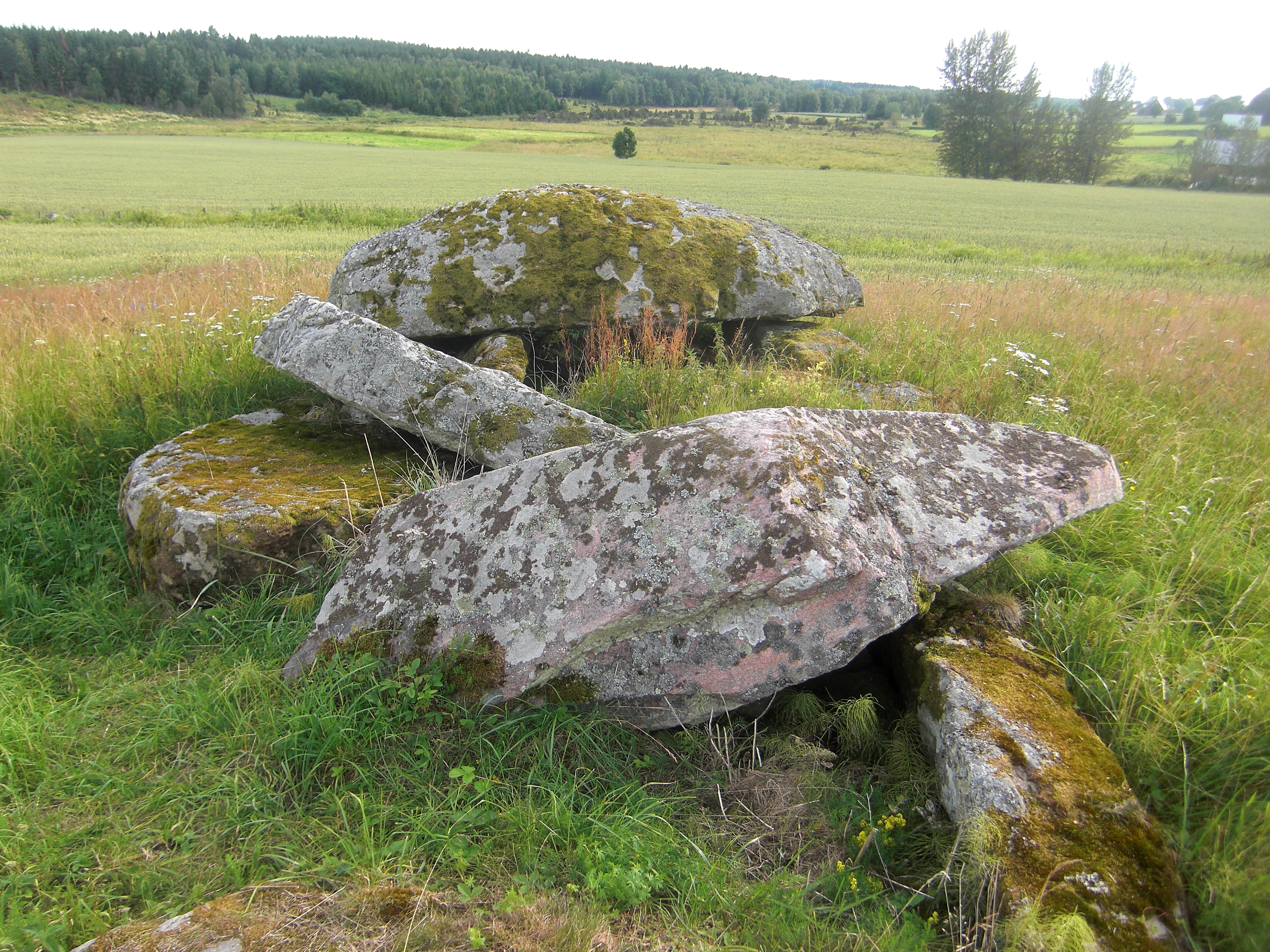 Passage grave in Vårkumla, Sweden. The southwesten passage grave at Hallabacken (RAÄ number Vårkumla 14:1) seen from northeast. Hallabacken i situated between Glaskulla and Vårskäl in Vårkumla parish, Frökind hundred, Falköping municipality, former Skaraborg county, province of Västergötland, Sweden.